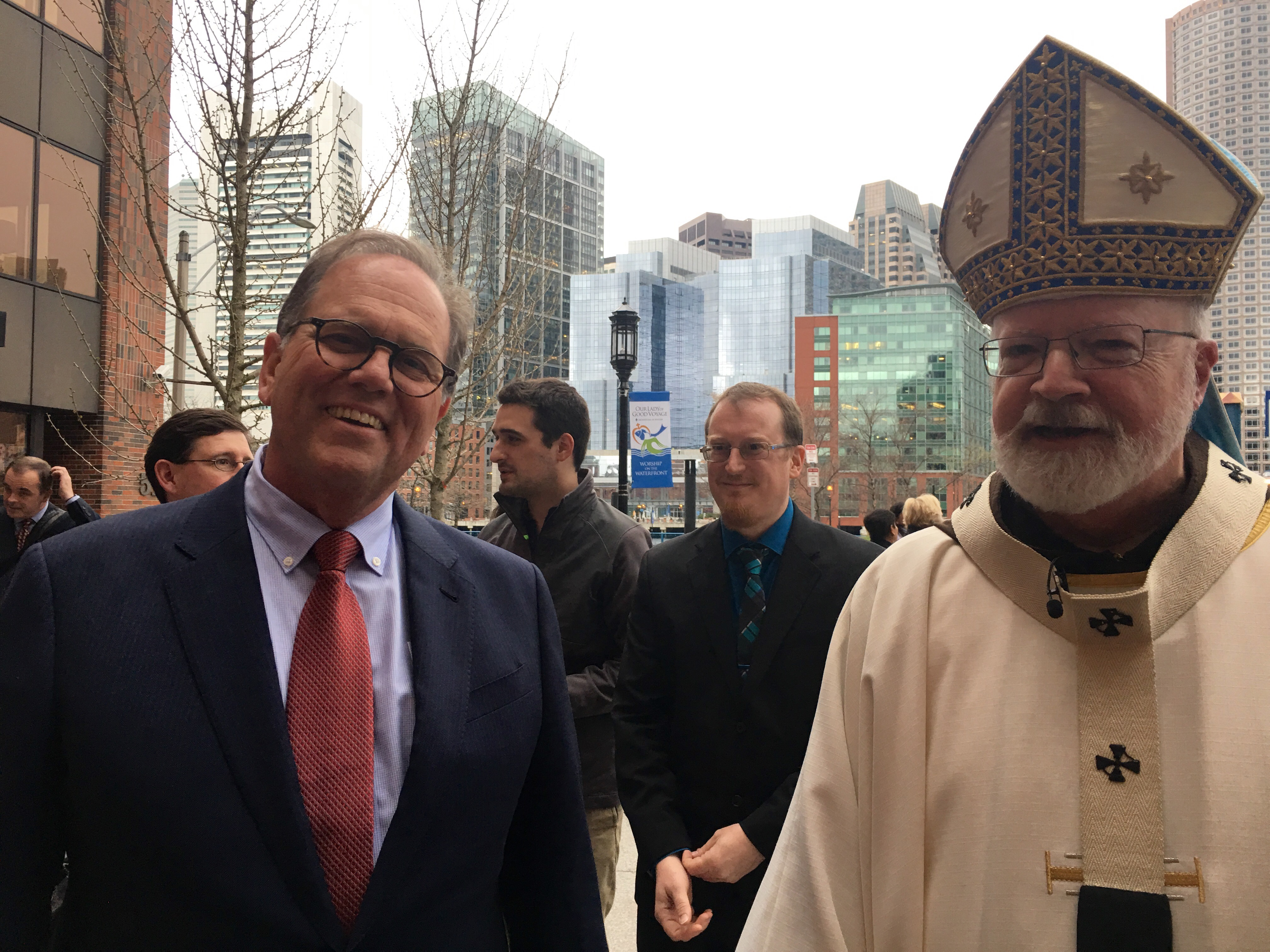 ethan anthony and sean omalley